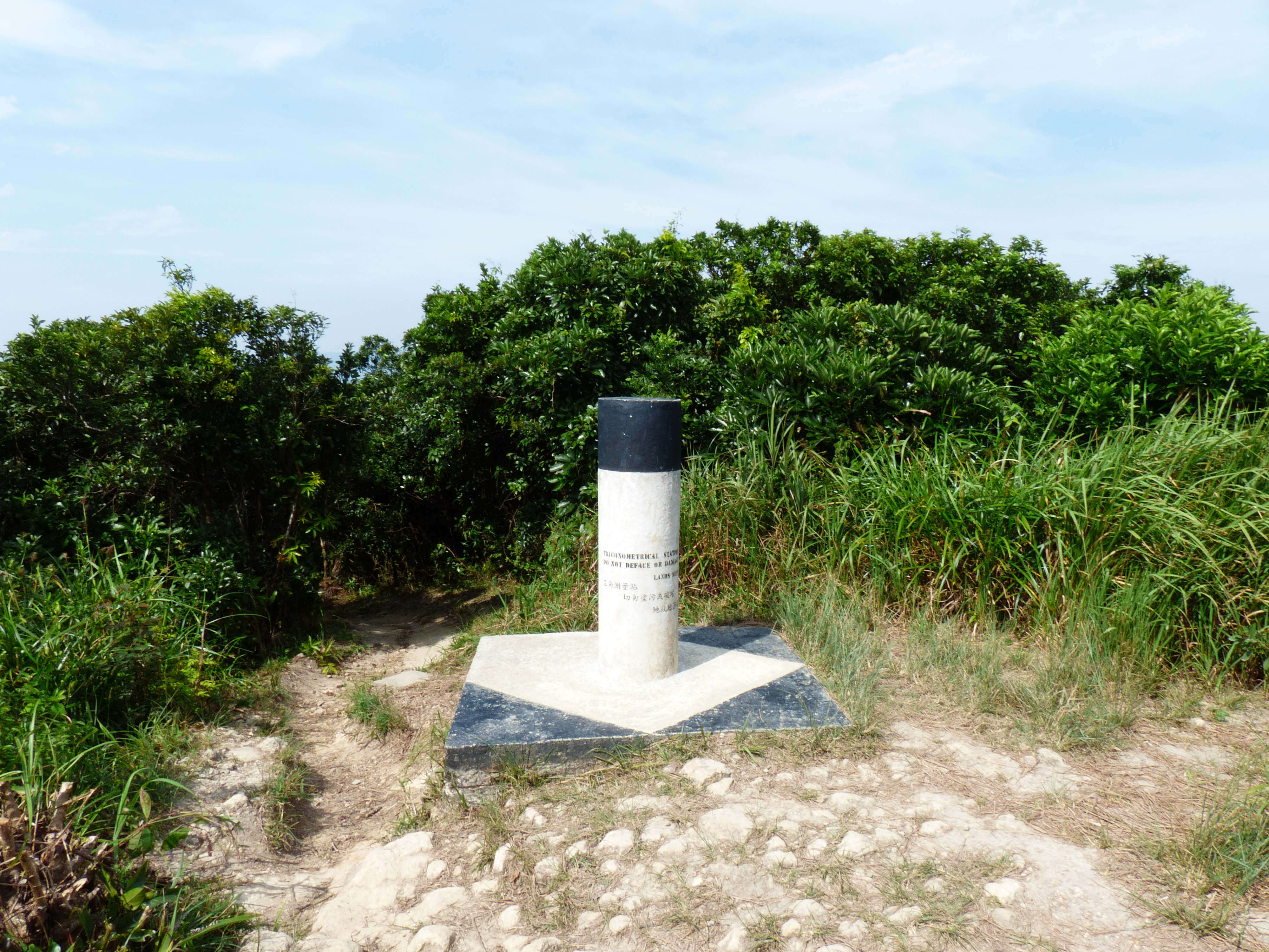 The trigonometric station found in Violet Hill (433m) Trigonometric Station Number: 204